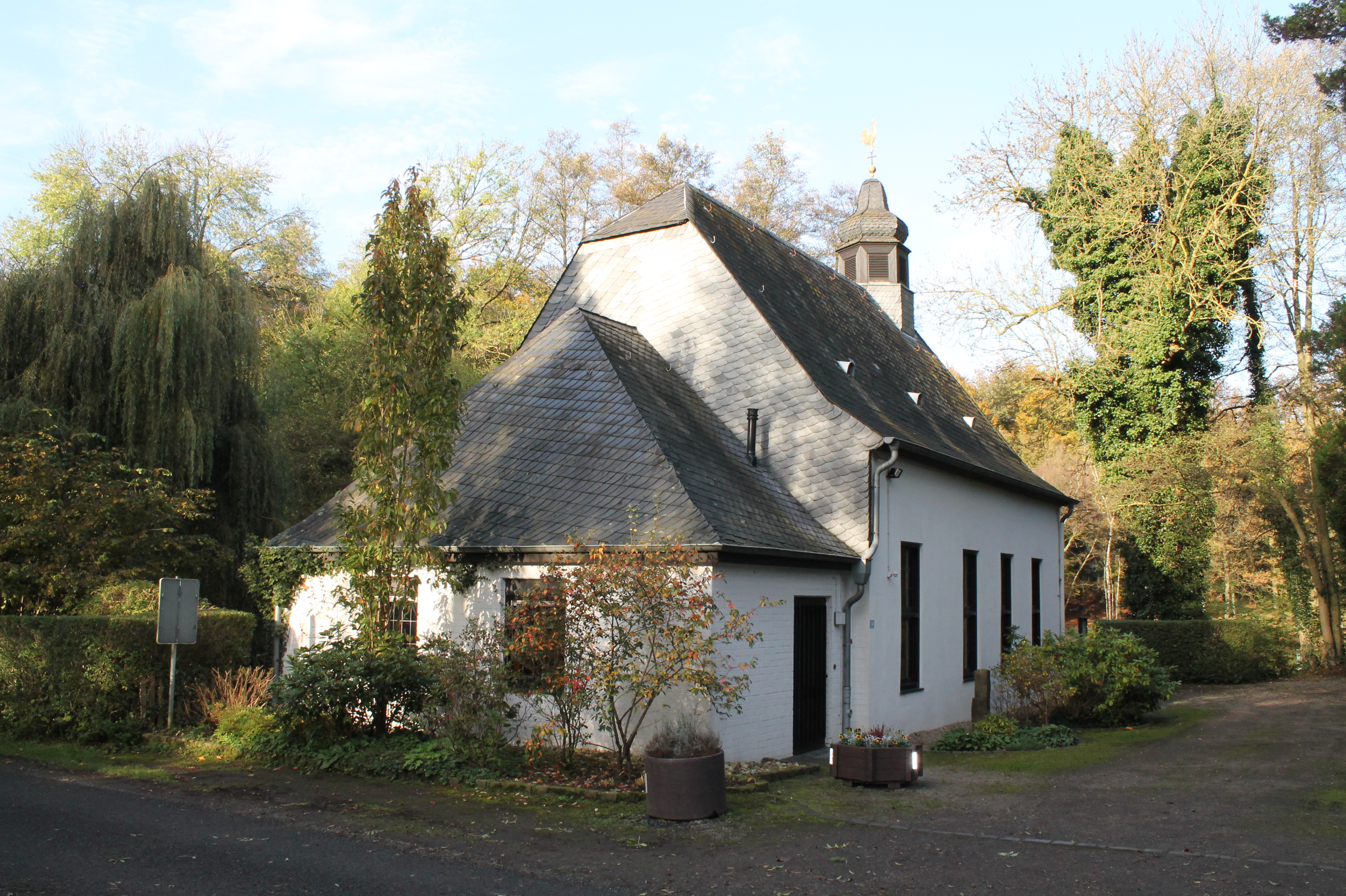 Chapel in Paesmühle. After the mill ("Mühle") was taken down the barn was converted into this chapel. In 1930 it was dedicated to John the Baptist.